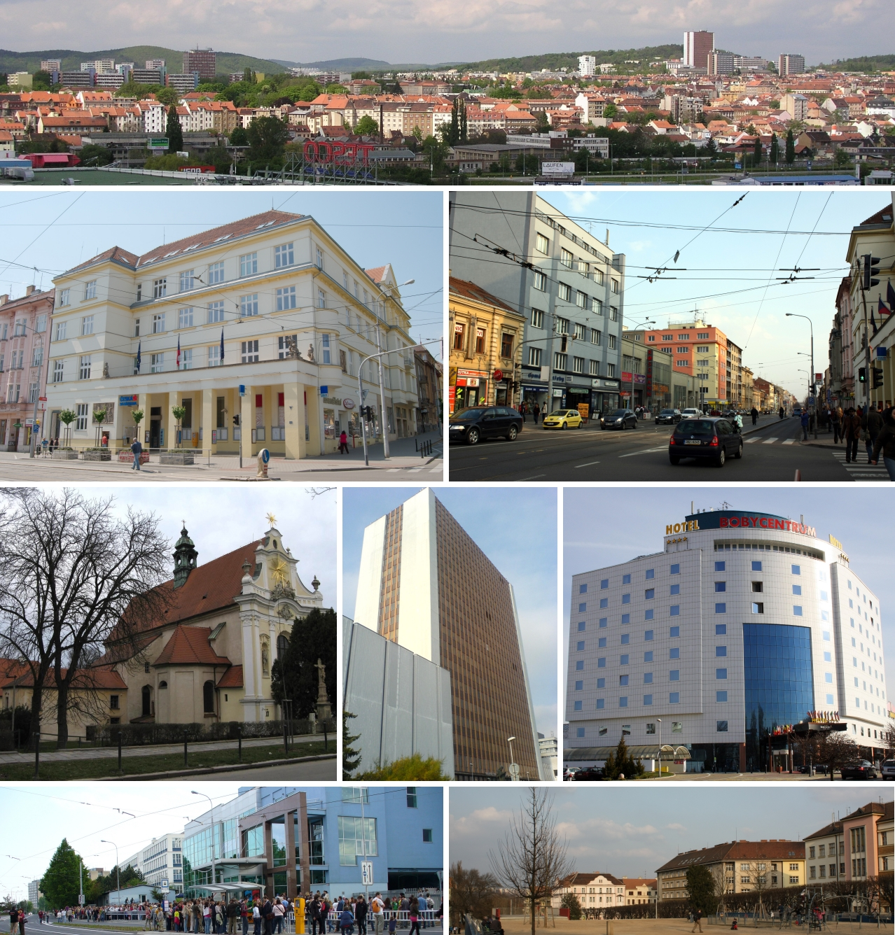 Brno-Královo Pole - view from East